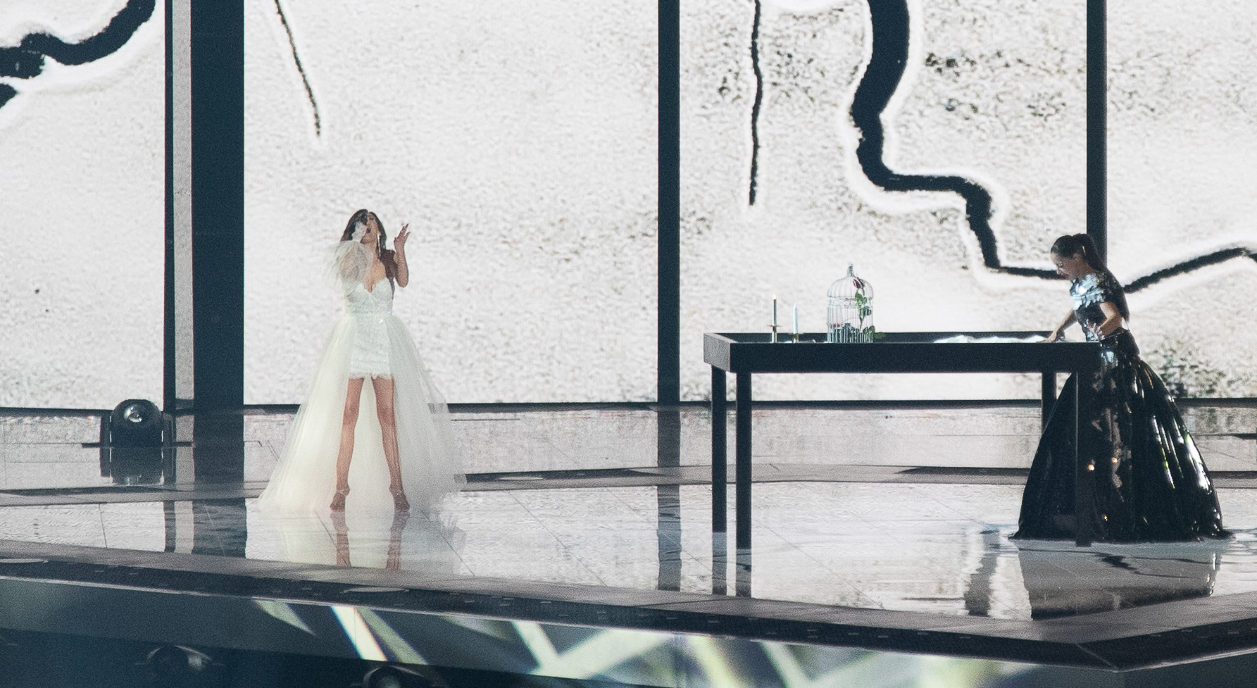 At the 2019 Eurovision Song Contest Semi-final 2 dress rehearsal